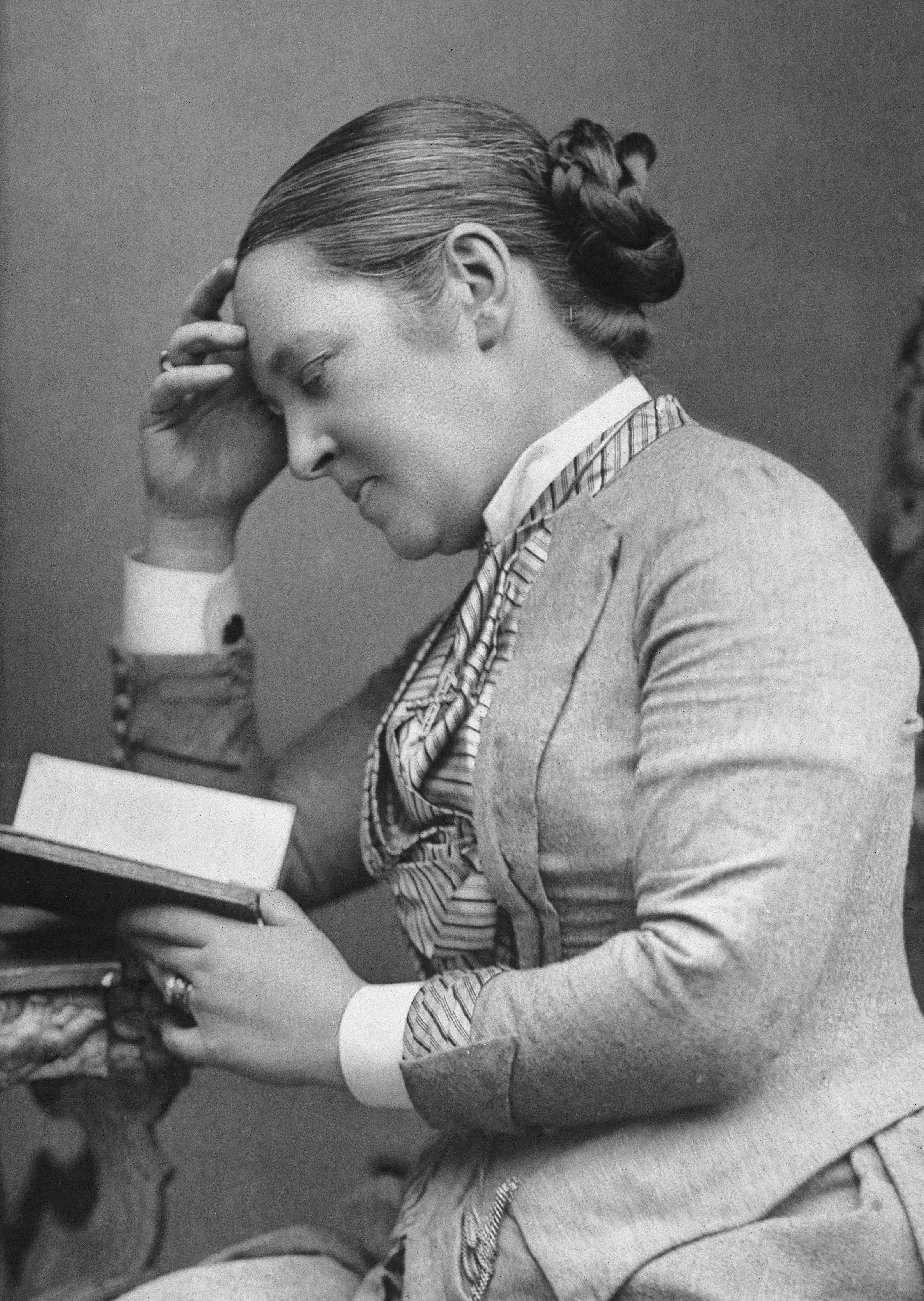 Elizabeth Garrett Anderson. Photograph by Walery, published by Sampson Low & Co. in February 1889[1]